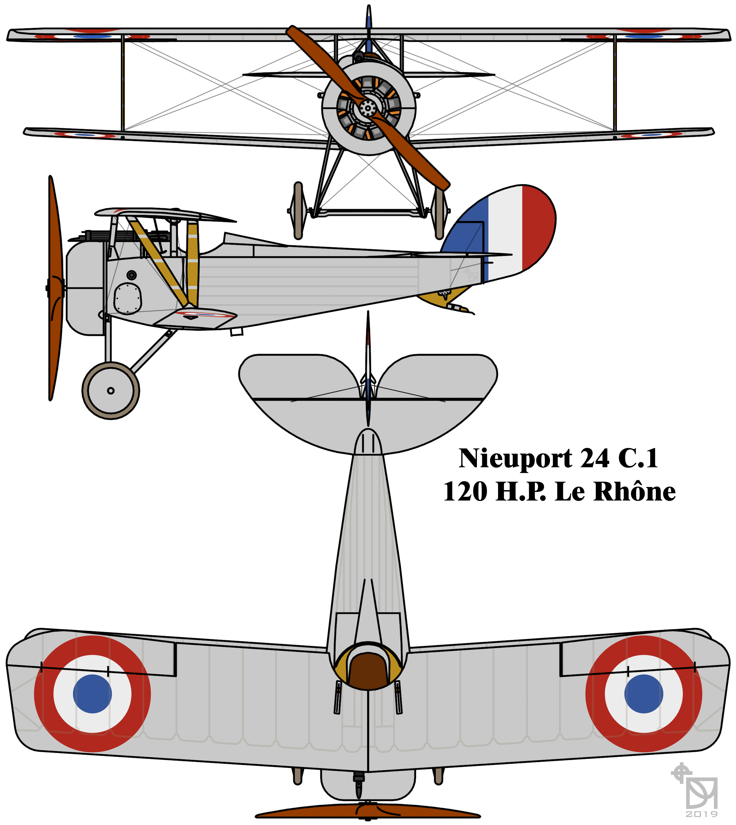 Nieuport 24 C.1 French First World War single seat fighter colourized drawing